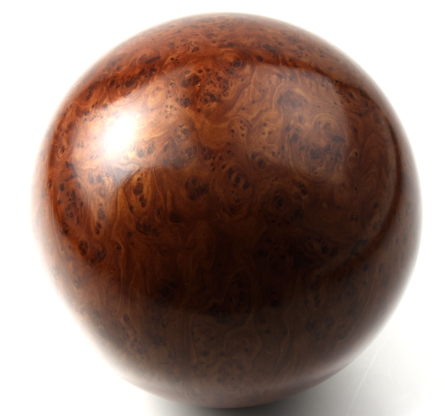 This platic ball has been refined by water transfer printing with a real wood film from Perfect Finish. Thus, a plastic object becomes a wood object.